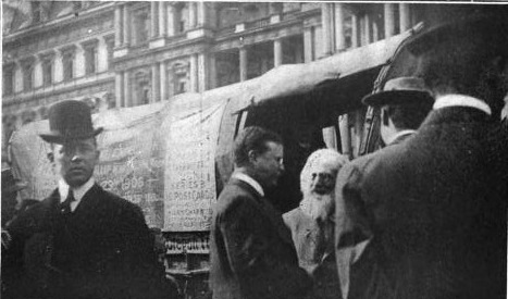 Ezra Meeker (with beard) shows President Theodore Roosevelt his wagon and team